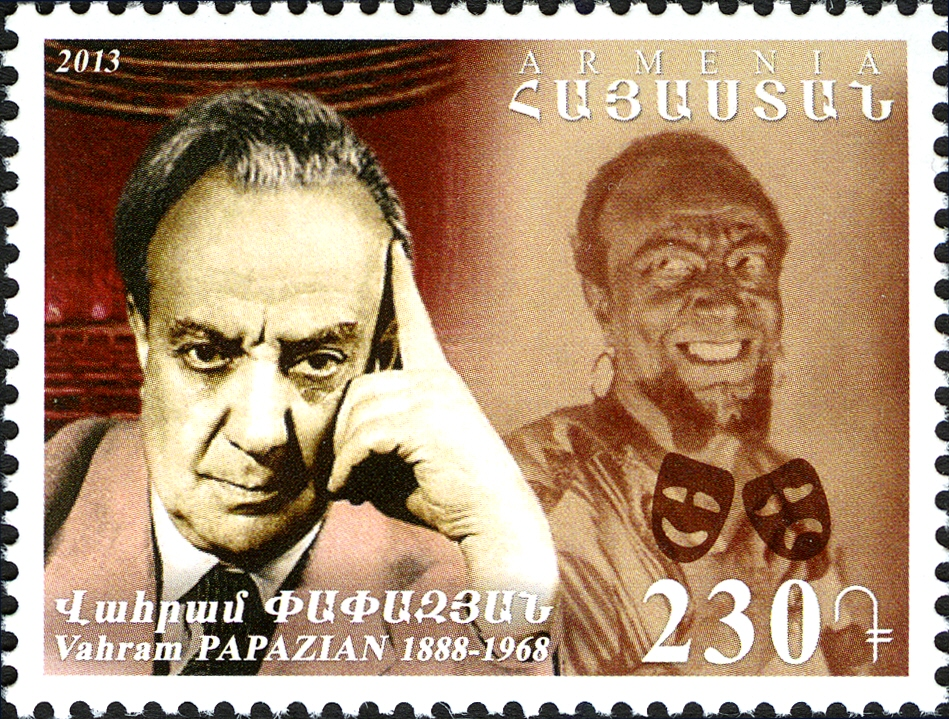 125th Anniversary of Vahram Papazyan